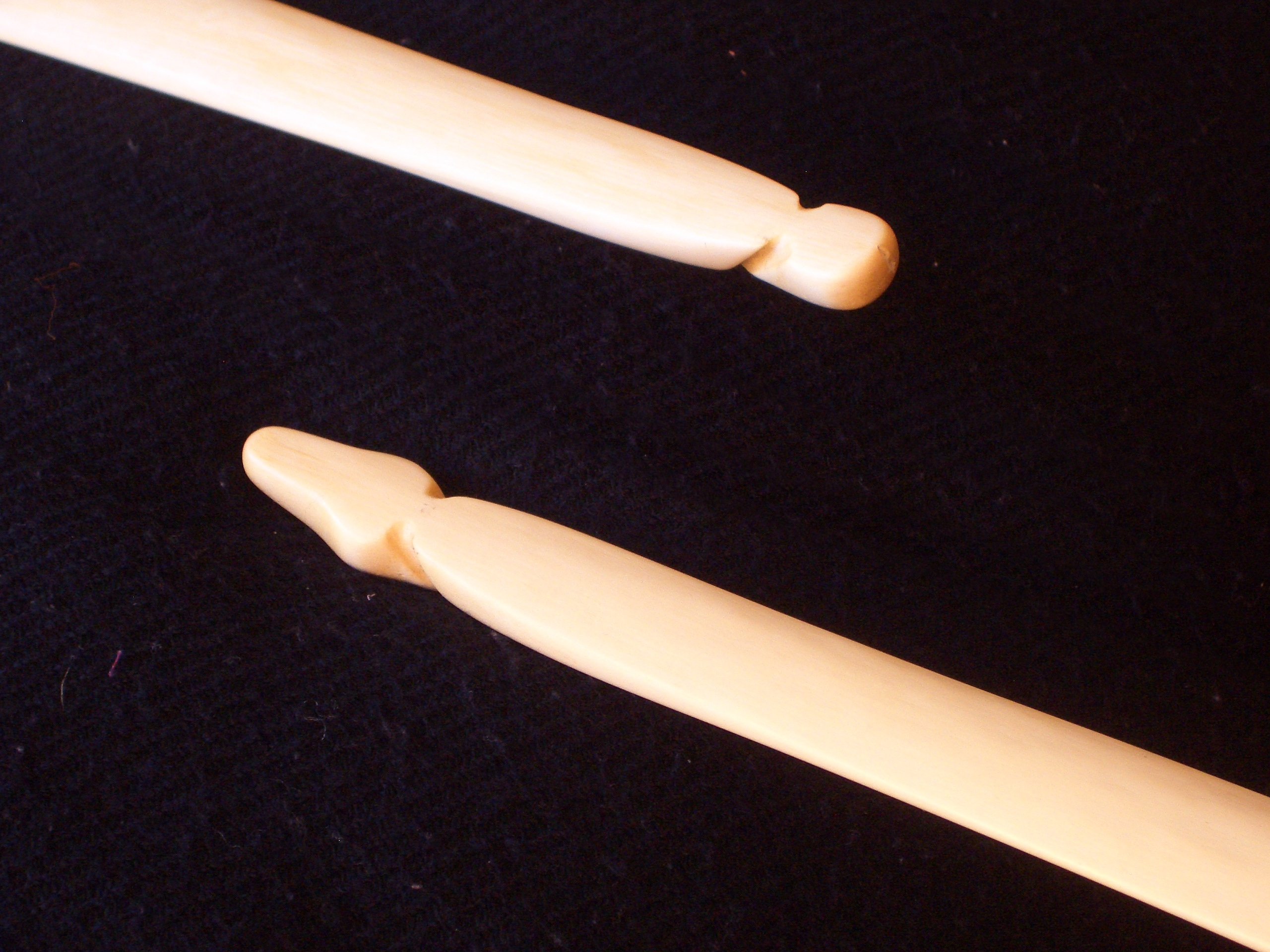 Tips of a Tybrind Vig style bow